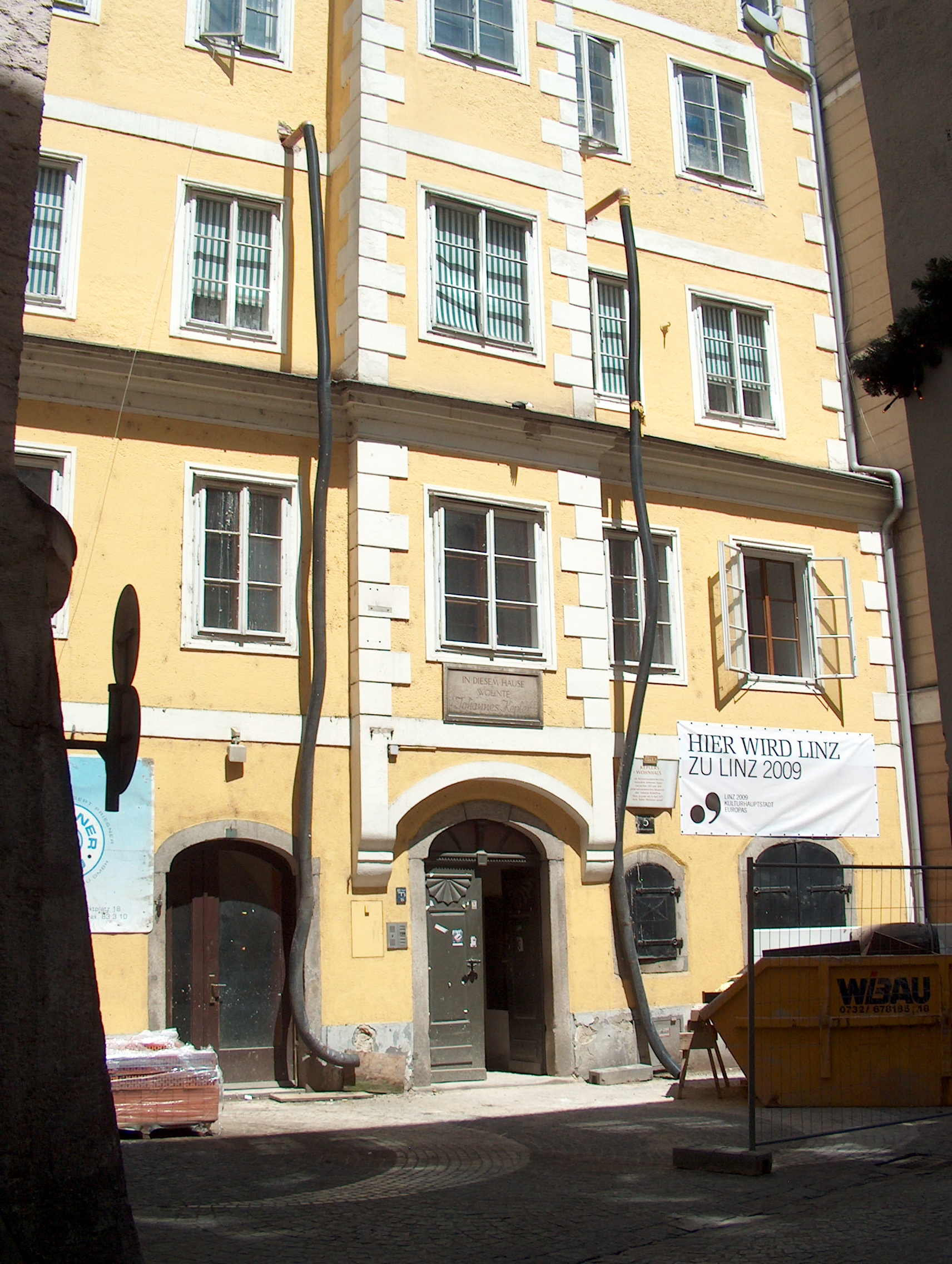 Linz - The house where Johannes Kepler had his home in the 1600s.